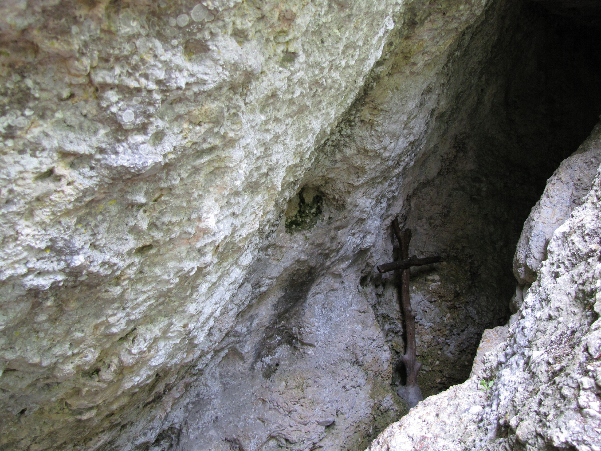 Franciscan sanctuary of Fonte Colombo in Rieti (Lazio, Italy)